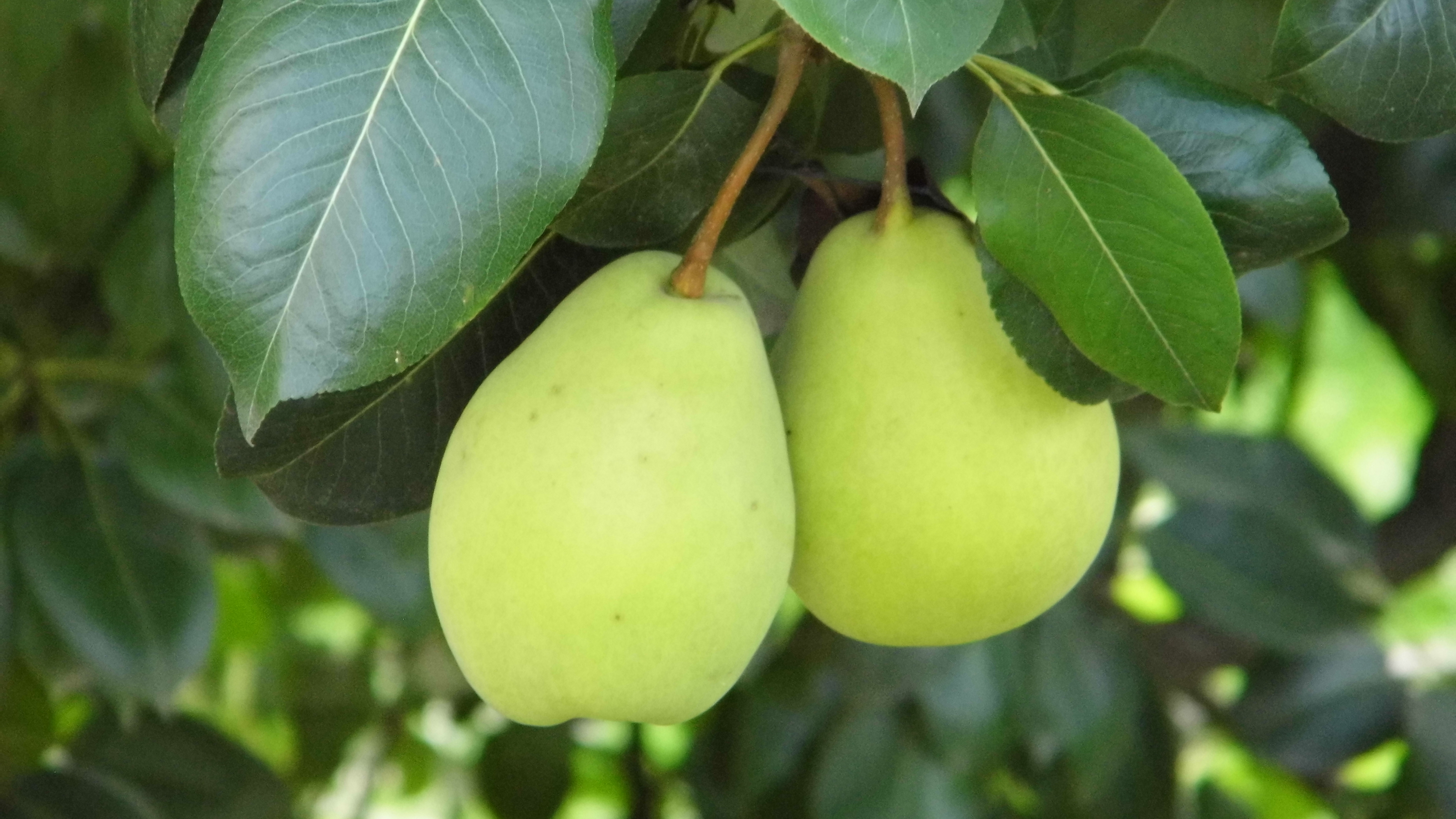 A pair of pear fruits on a tree